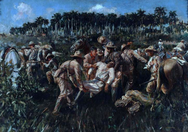 Death of Maceo. Oil on canvas